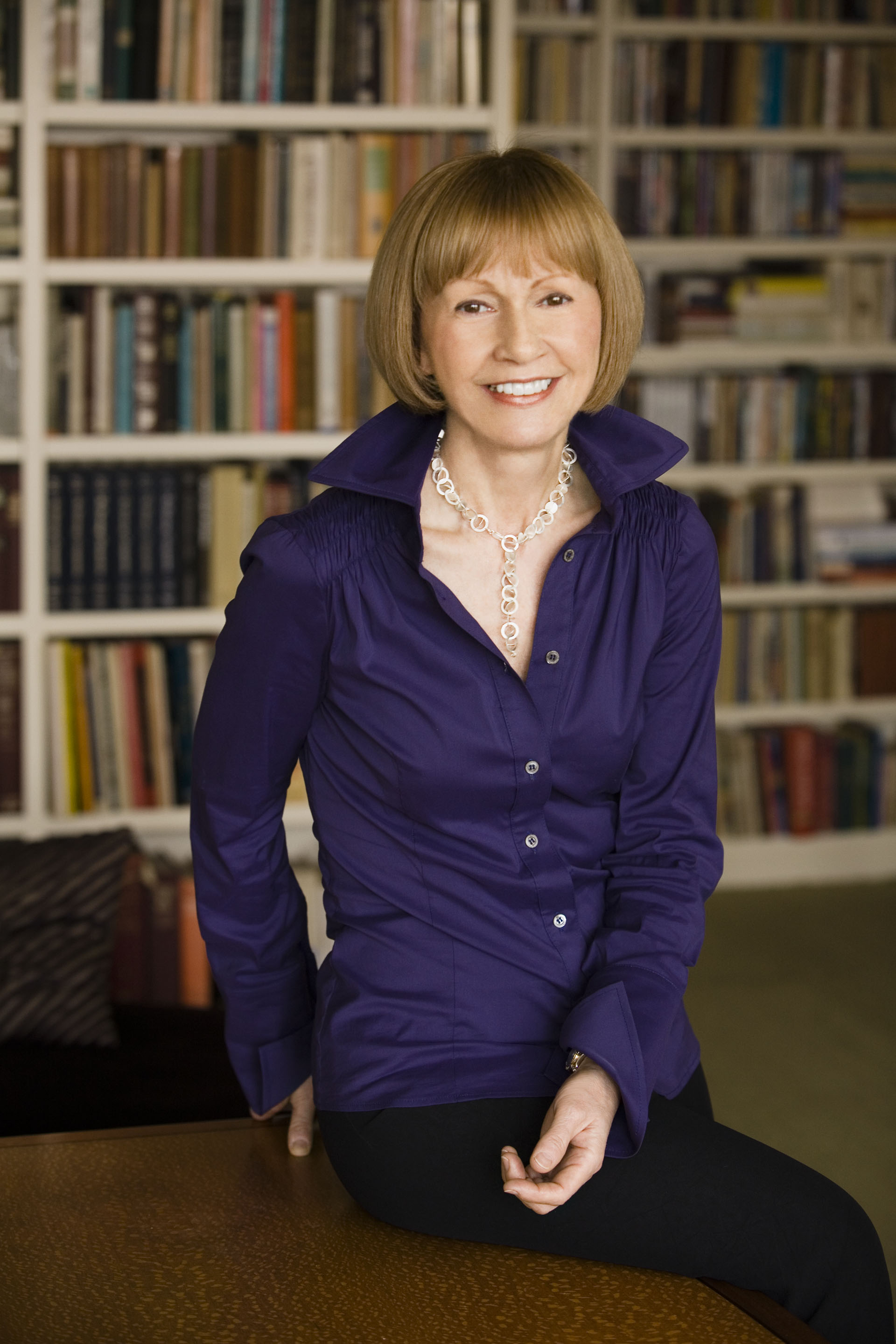 photo of Mireille Guiliano